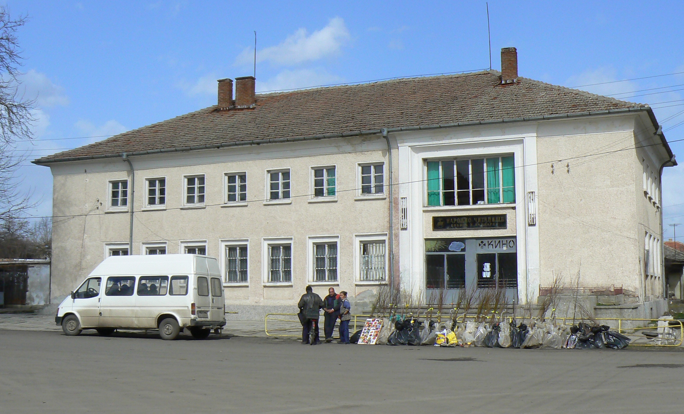 Library "Saznanie" of village Rusokastro, Burgas District, Bulgaria